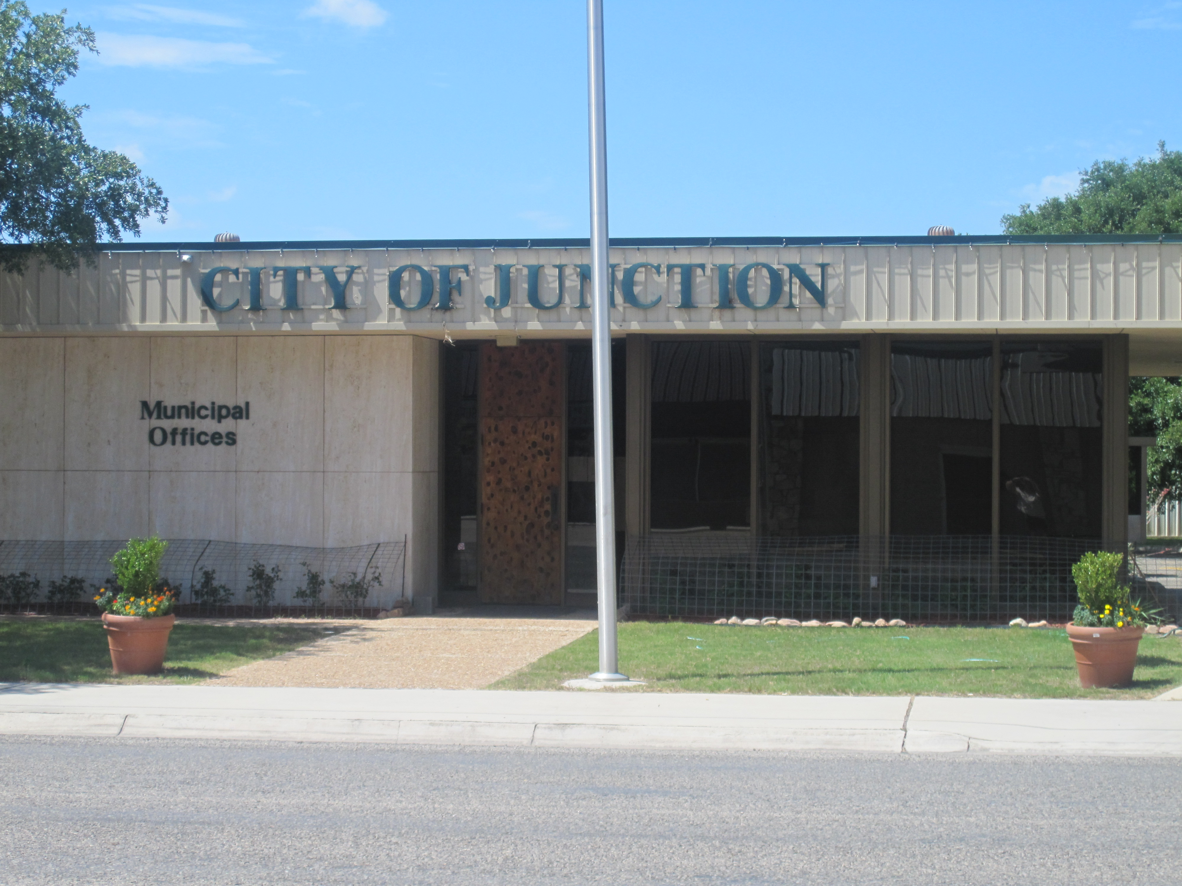 I took photo with Canon camera in Junction, TX.